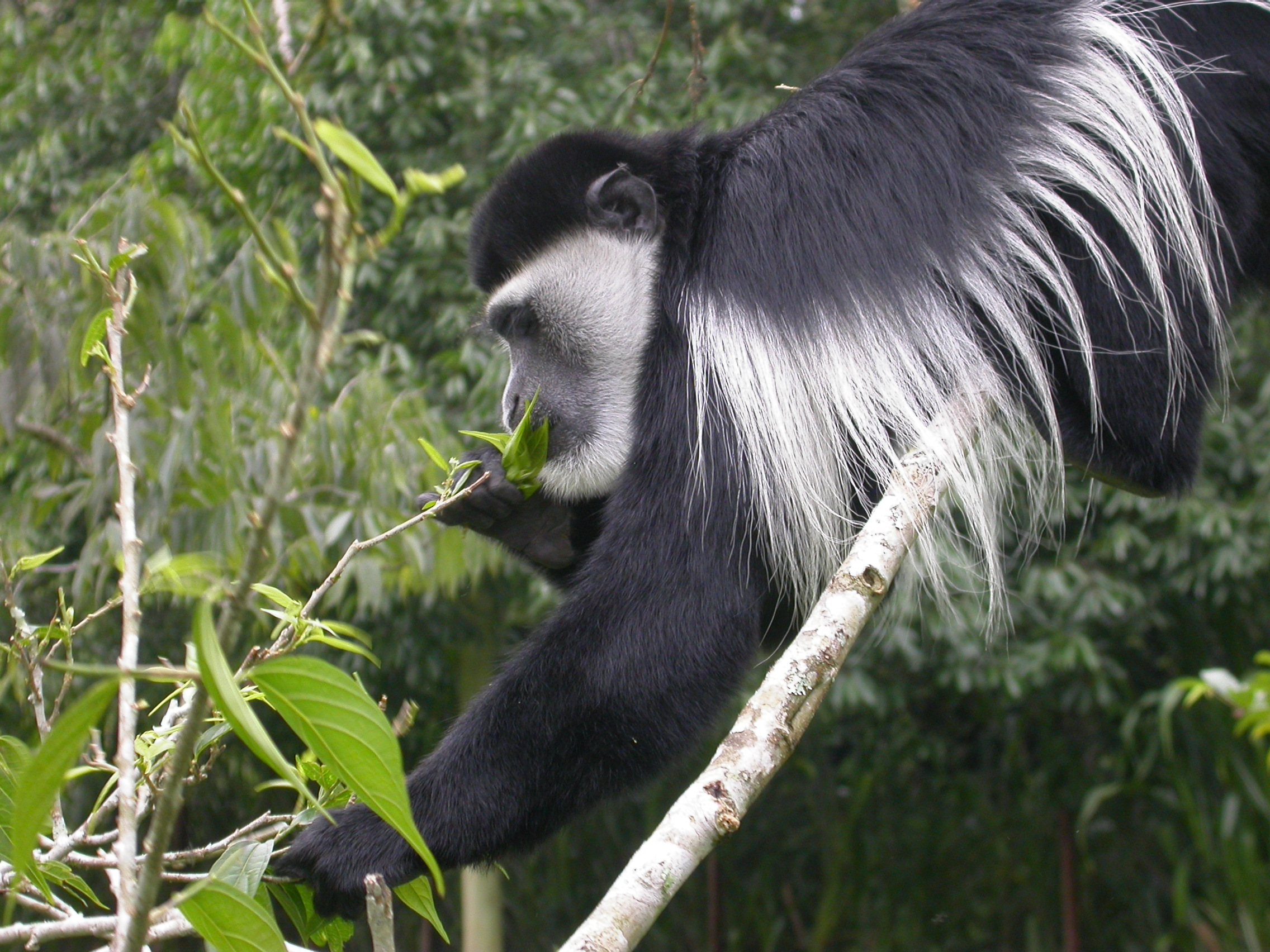 Mantled Guereza (Colobus guereza). These guys were very habituated. I could practically knock this guy off a branch. Pity we didn't study them, as we could have done it from my porch.